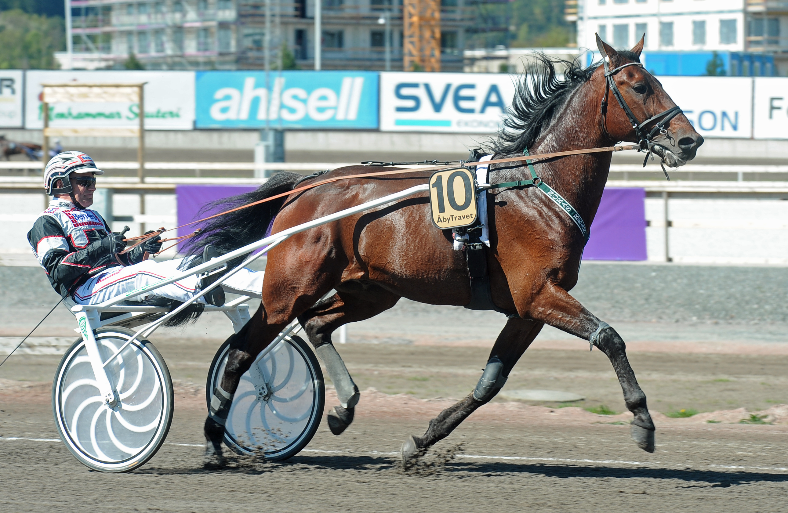 foto : ck : noras bean_söderkvist stefan